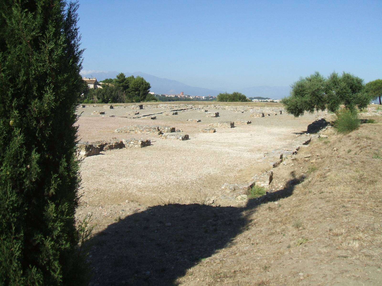 Ruscino archaeological site : the Roman forum, north-eastern view (Ist century AD)